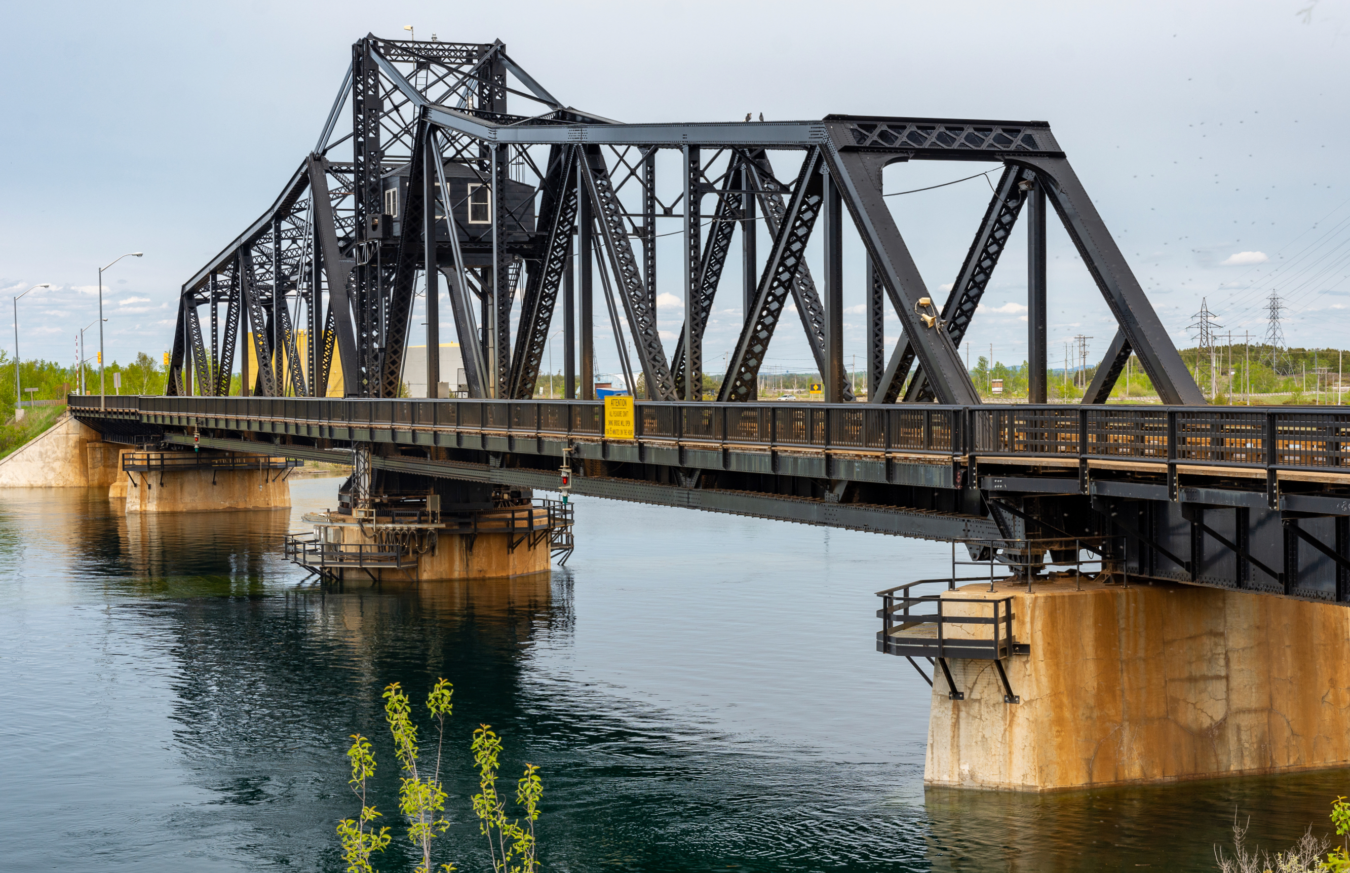 Swing bridge between Manitoulin Island and the mainland, in Little Current, Ontario, was built in 1913 by the Algoma Eastern Railway. Originally usable only by trains, it was modified in the late 1940s to allow road vehicles also to use it. The rail service was abandoned in the 1980s, and the tracks were removed in the 1990s. This view is from the southwest.